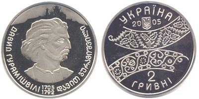 2 hryvnia (Ukraine) commemorating the Georgian poet David Guramishvili